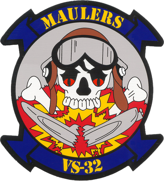 Insignia of the U.S. Navy Air Anti-Submarine Squadron 32 (VS-32) "Maulers". VS-32 lineage: Established as VC-32 on 31 May 1949, redesignated VS-32 on 20 April 1950. Insignia approved: 24 April 2001.